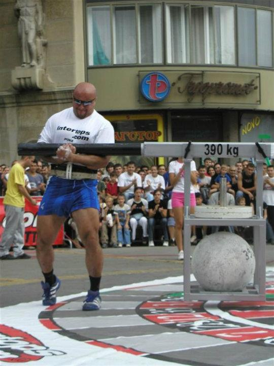 Milan Strongman Jovanvic moving super heavy stone